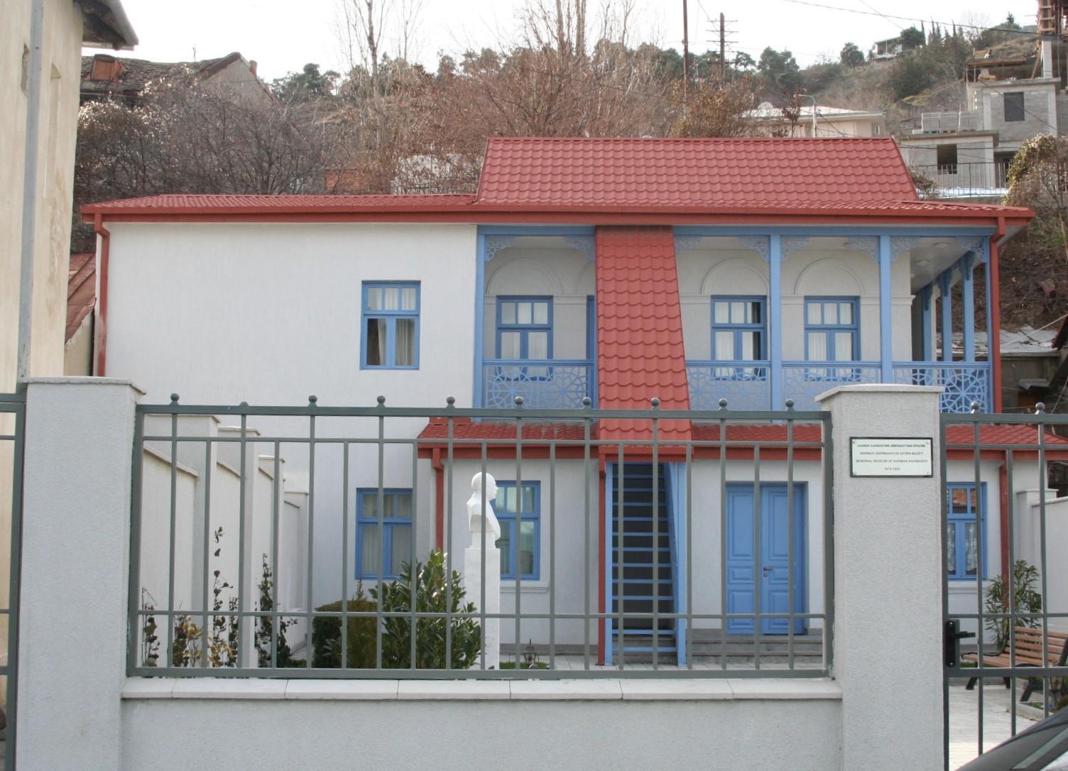 House-museum of Nariman Narimanov (Tbilisi)